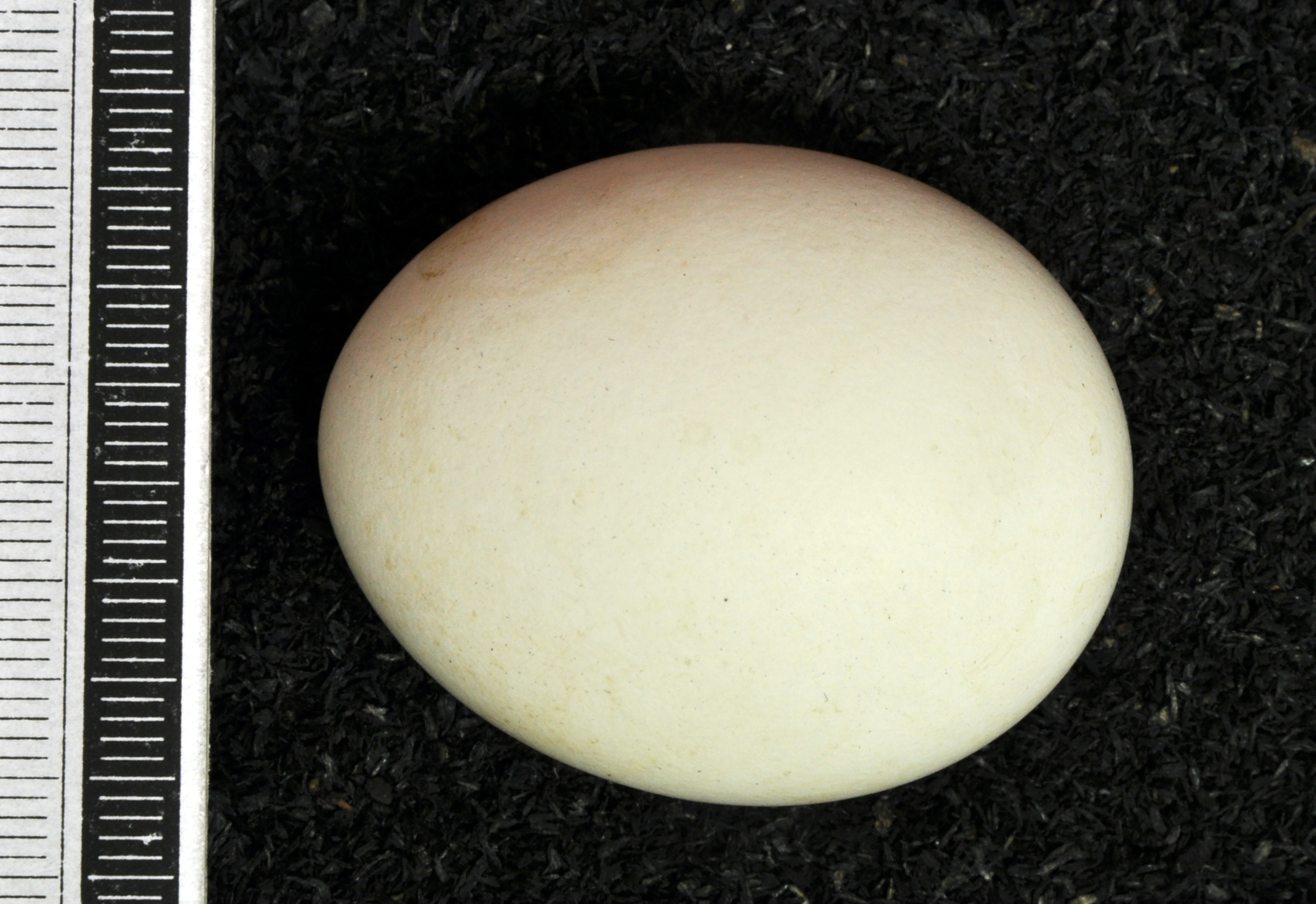 Montagu's harrier Circus pygargus , egg, Coll. Museum Wiesbaden